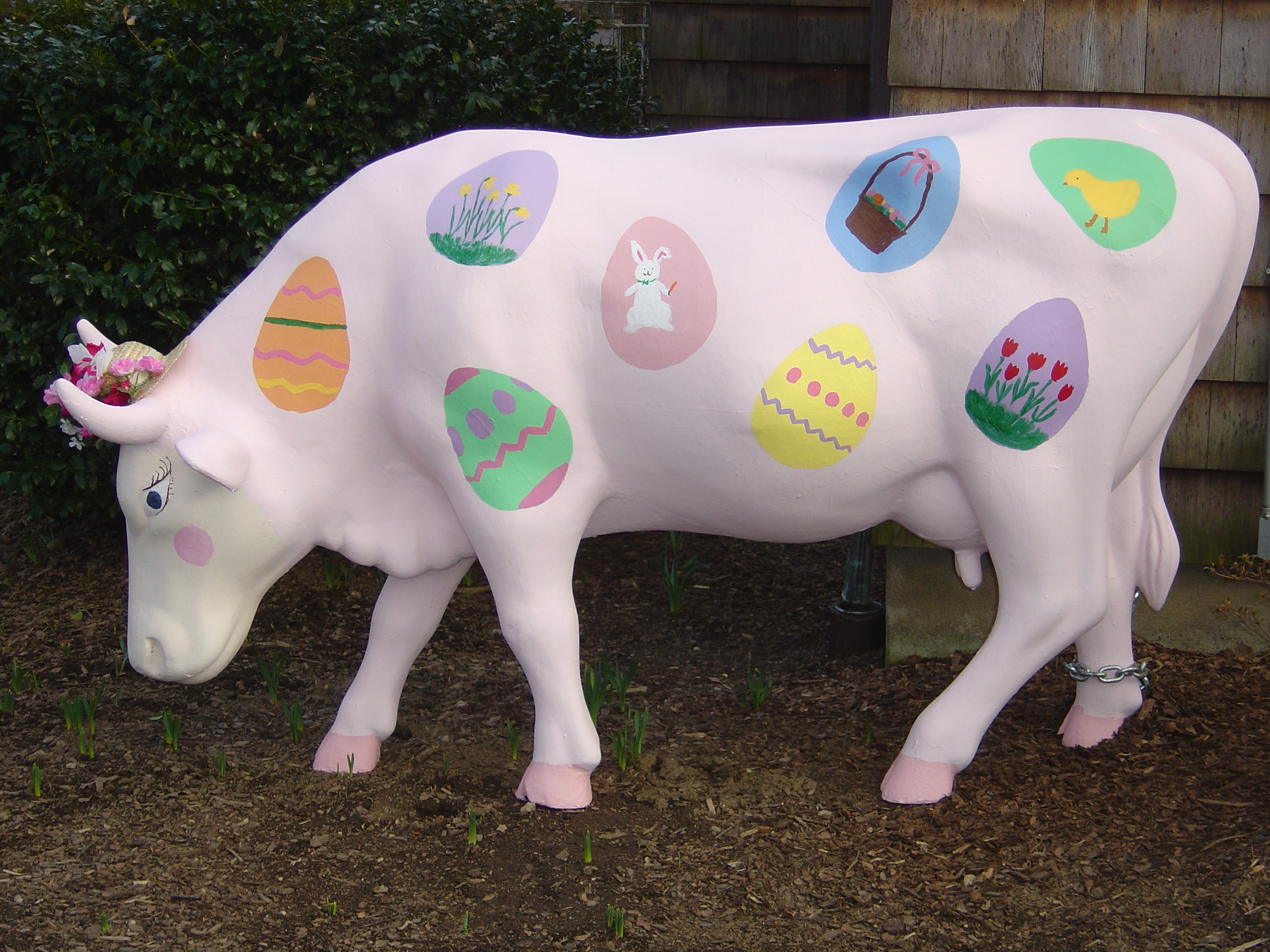 Gladys Easter Icon